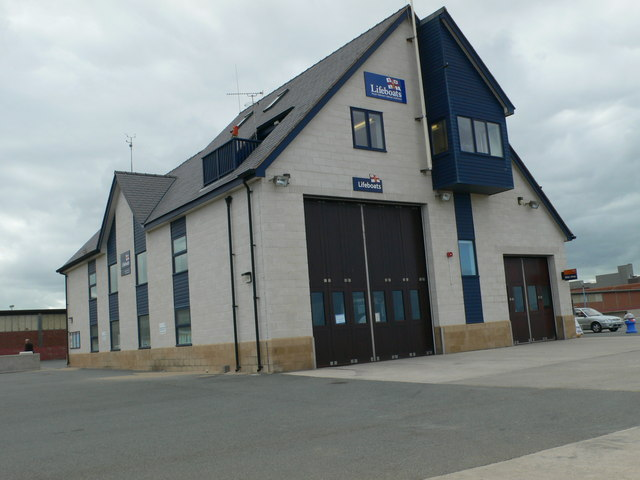 Rhyl Lifeboat Station